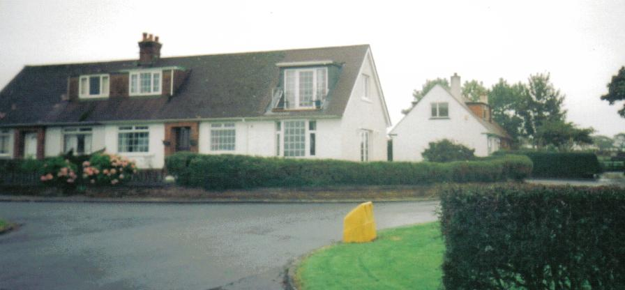 Chapeltoun Terrace on the Stewarton to Cunninghamhead Road, North Ayrshire, in 2006.